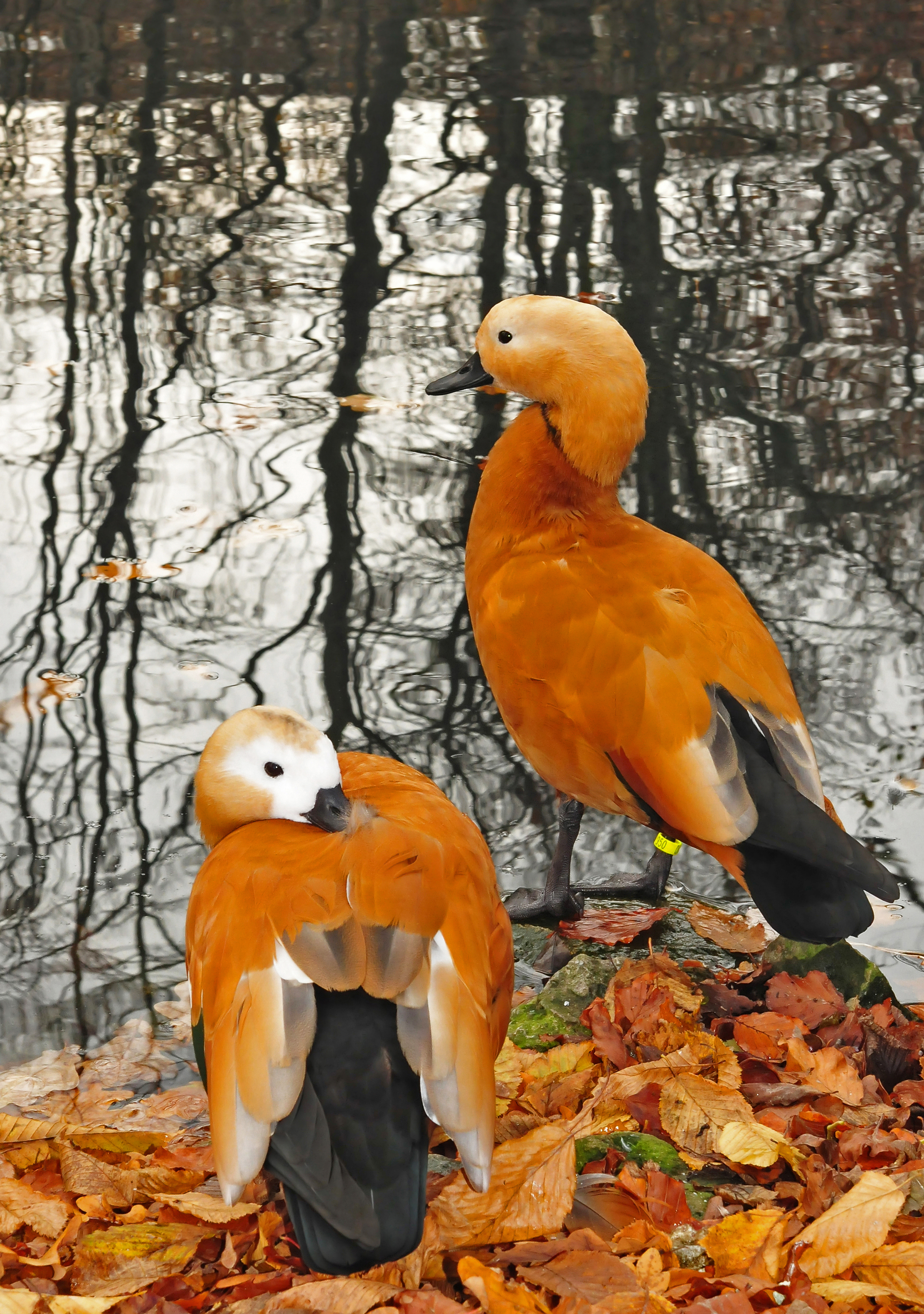 A couple of captive pinioned Ruddy Shelduck at Wisentgehege Springe zoo.